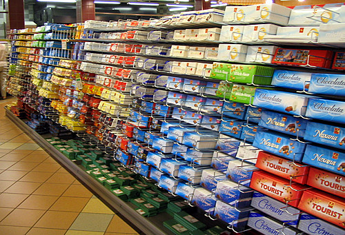 The chocolate section of a Migros supermarket in Interlaken, Switzerland.